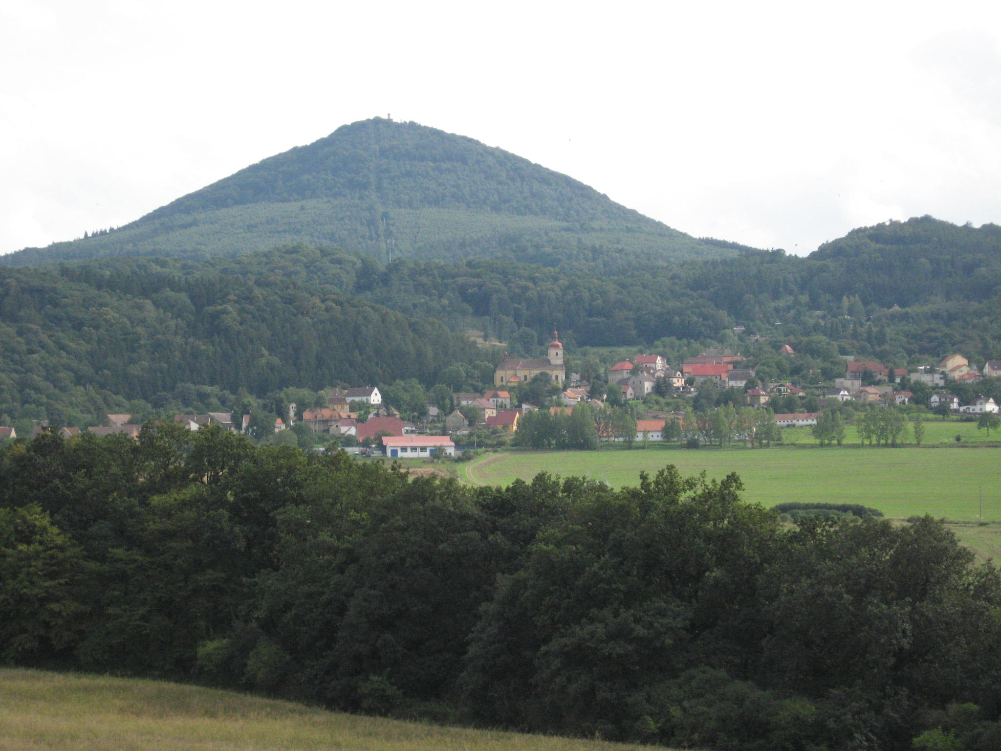 Bořislav - total view